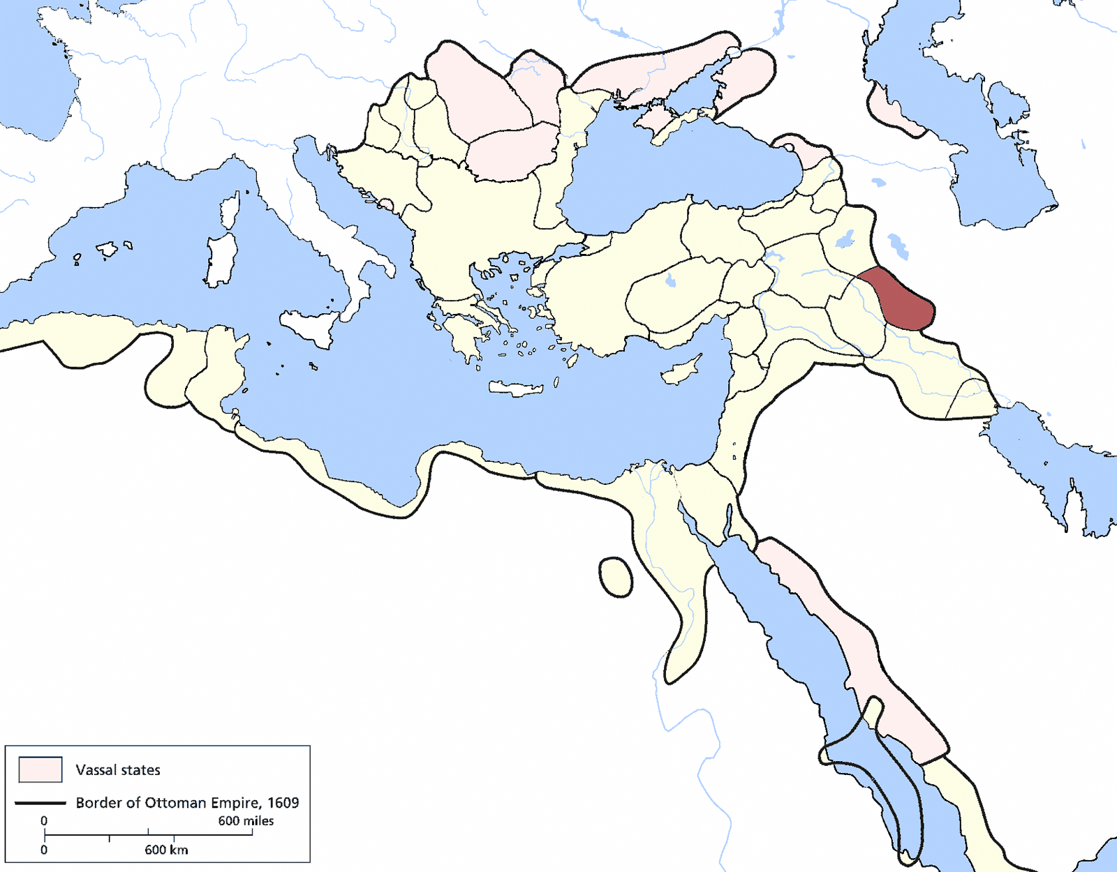 Shehrizor Eyalet, Ottoman Empire (1609). Source: Encyclopedia of the Ottoman Empire at Google Books By Gábor Ágoston, Bruce Alan Masters